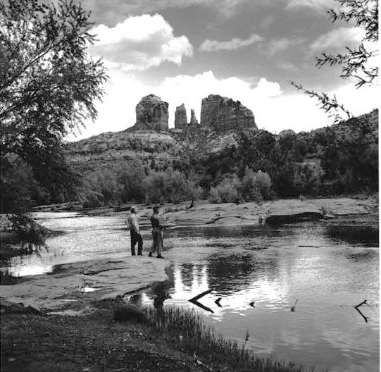 Fishing in Oak Creek, Cathedral Rock, Coconino National Forest, near Sedona, Arizona. Cropped and tone adjusted by hike395